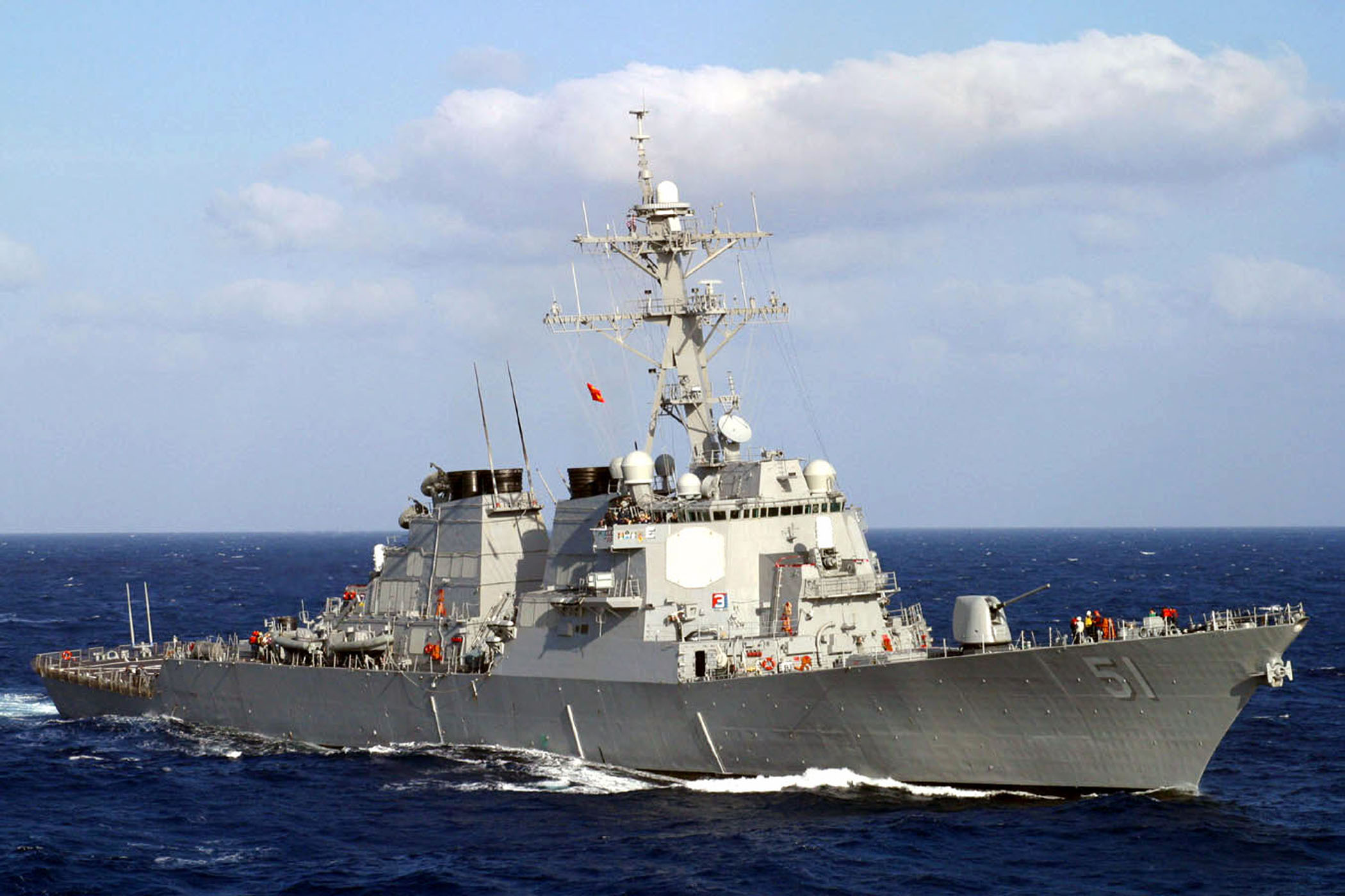 030313-N-0115R-077 The Mediterranean Sea (Mar. 13, 2003) -- The guided missile destroyer USS Arleigh Burke (DDG 51) steams through the Mediterranean Sea. Arleigh Burke is currently deployed in the Mediterranean Sea conducting missions in support of Operation Enduring Freedom. U.S. Navy photo by Journalist 2nd Class Patrick Reilly. (RELEASED)